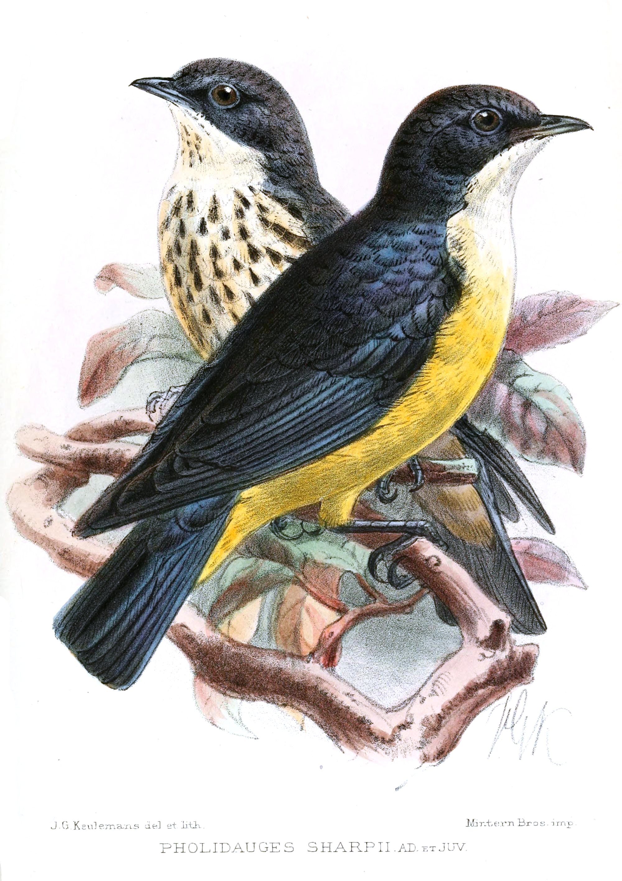 Pholidauges sharpii=Pholia sharpii=Cinnyricinclus sharpii (preferred by ITIS)=Poeoptera sharpii (preferred by IOC classification 2.11)